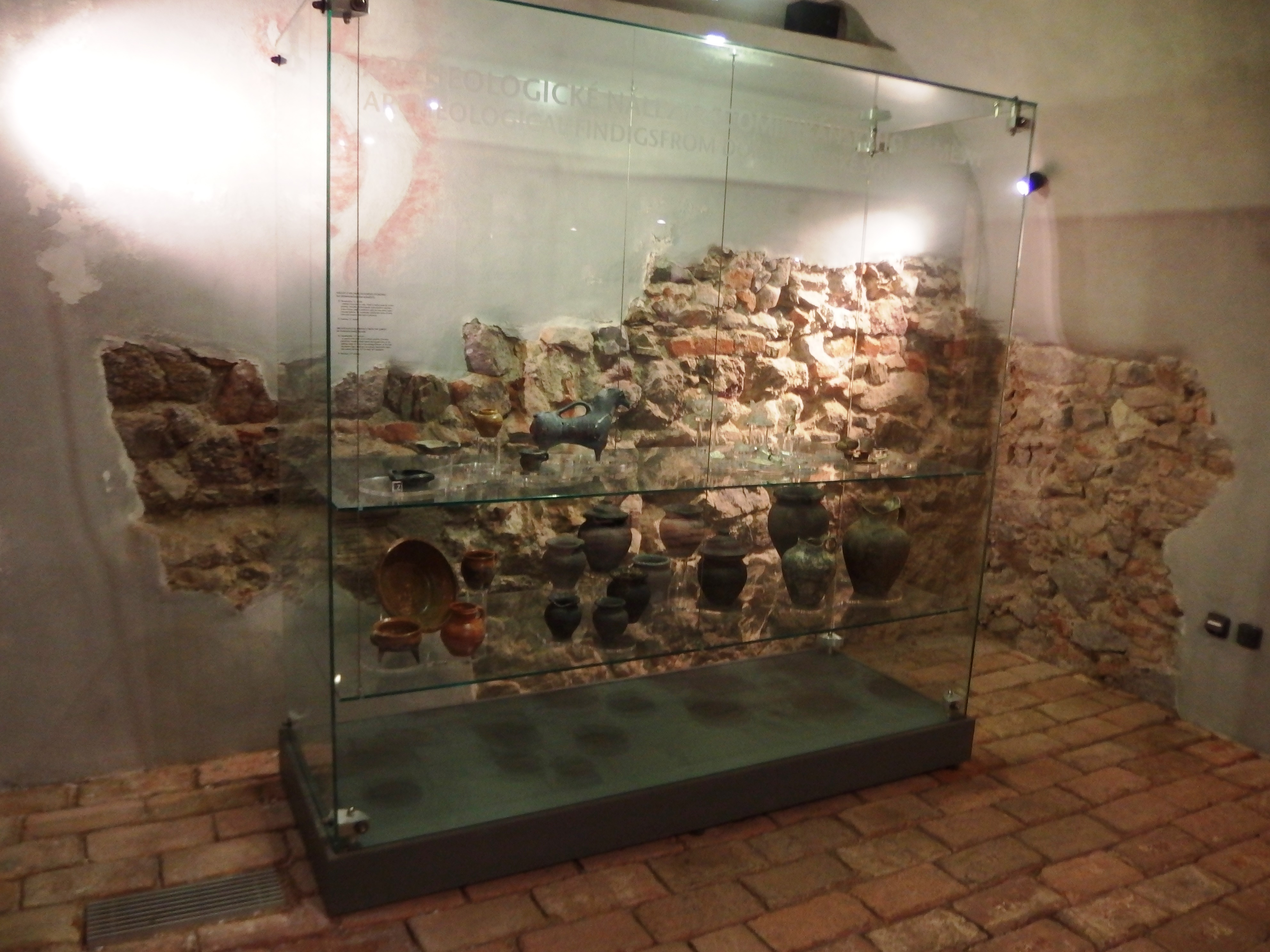 Brno, Czech Republic. Mintmaster's cellar.